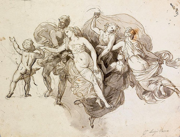 Venus and The Three Graces